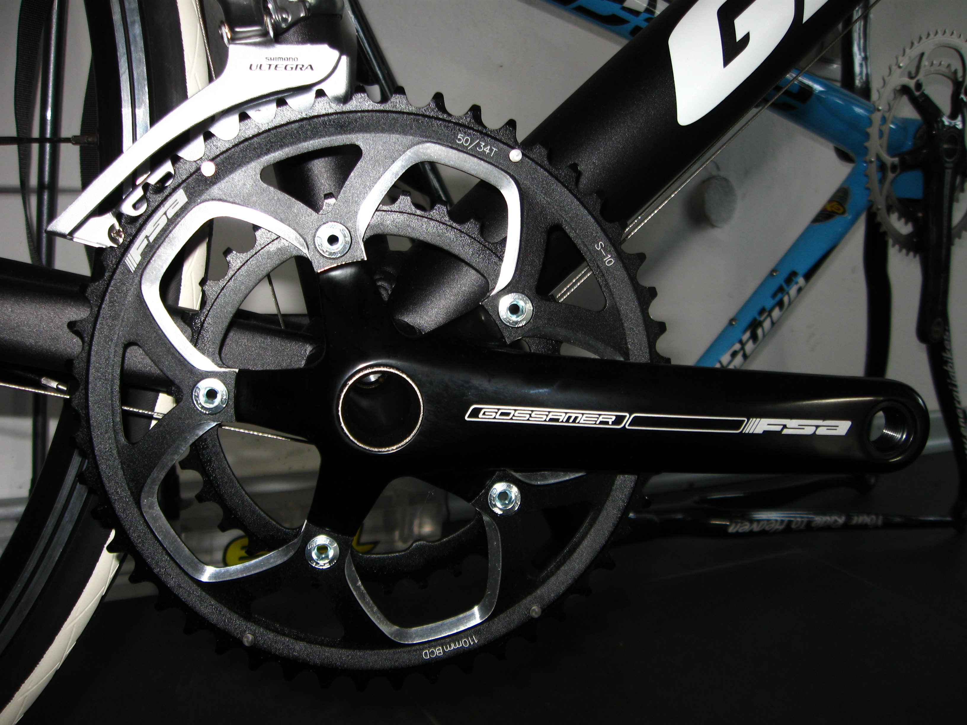 FSA crankset with Ultegra front derailleur.